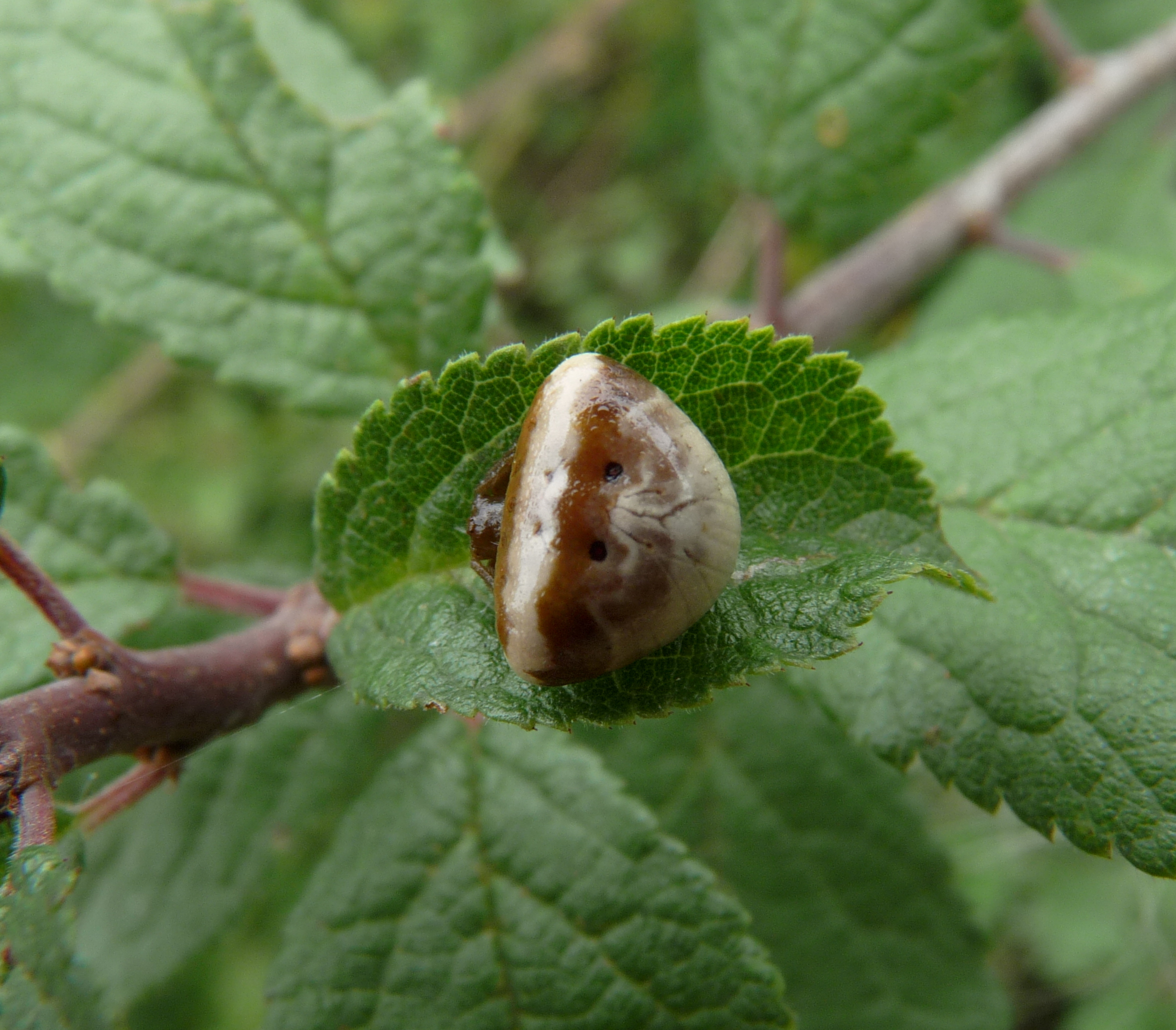 Spider Cyrtarachne ixoides, near Livorno, Tuscany, Italy